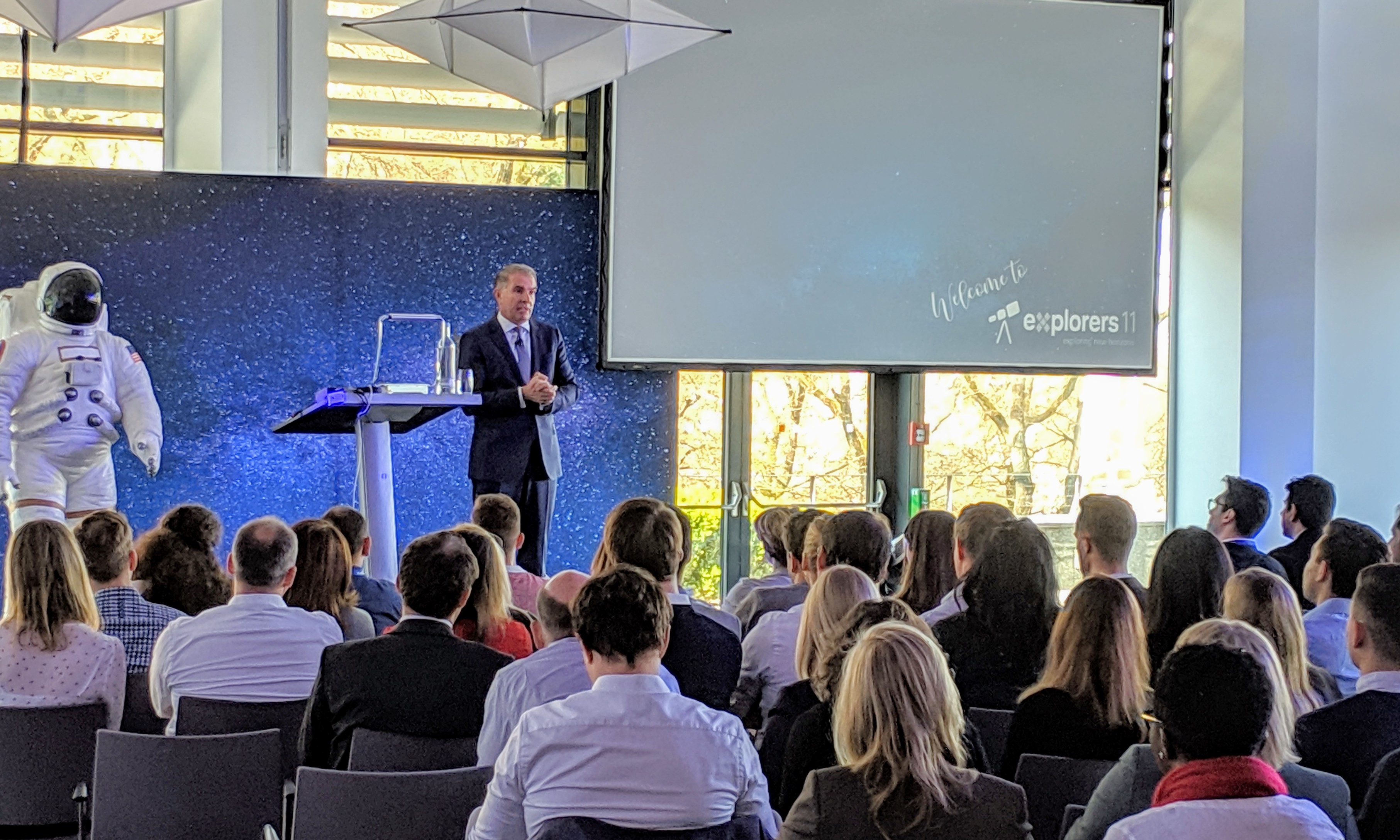 Lufthansa CEO Carsten Spohr addressing personal from Lufthansa Group at the kick off for Explorers 11.